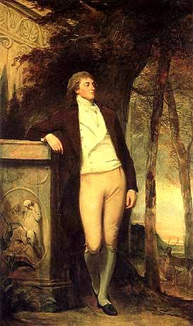 William Beckford portrait by George Romney in 1782, when he returned from his Grand Tour of Europe.